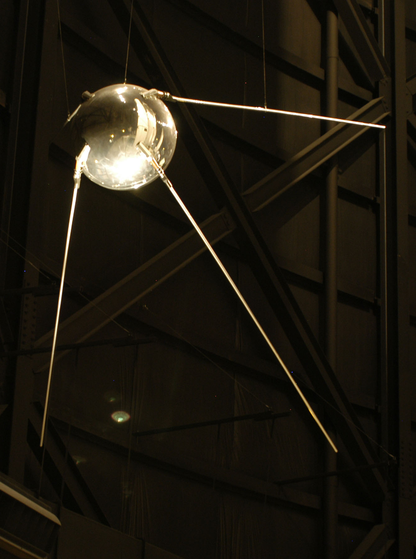 DAYTON, Ohio -- Sputnik I exhibit in the Missile & Space Gallery at the National Museum of the United States Air Force. Sputnik, which means "satellite" in Russian, was the Soviet entry in a scientific race to launch the first satellite ever.